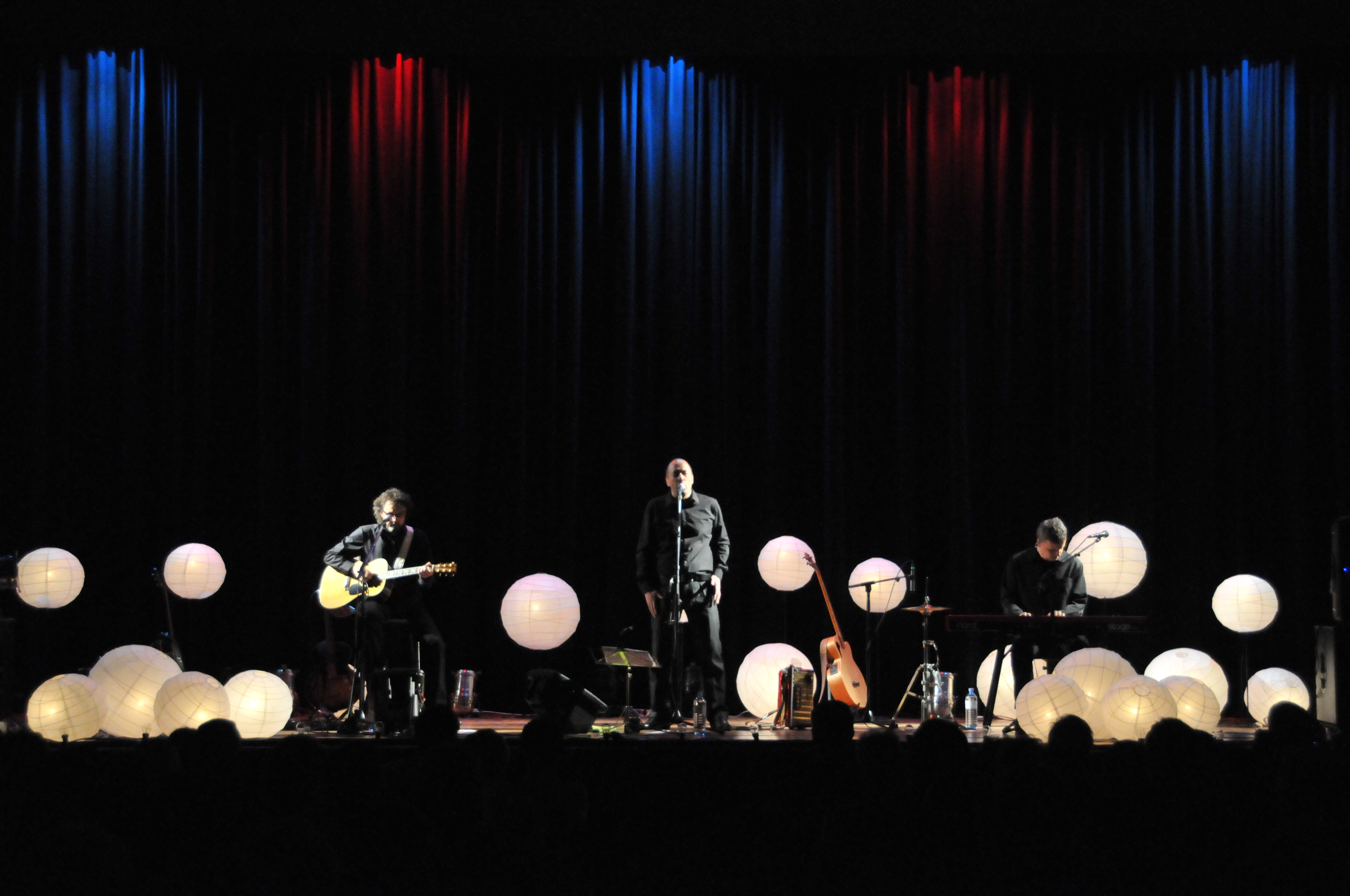 Schellinski on Stage - KOM Altach, Austria - 9.4.2011